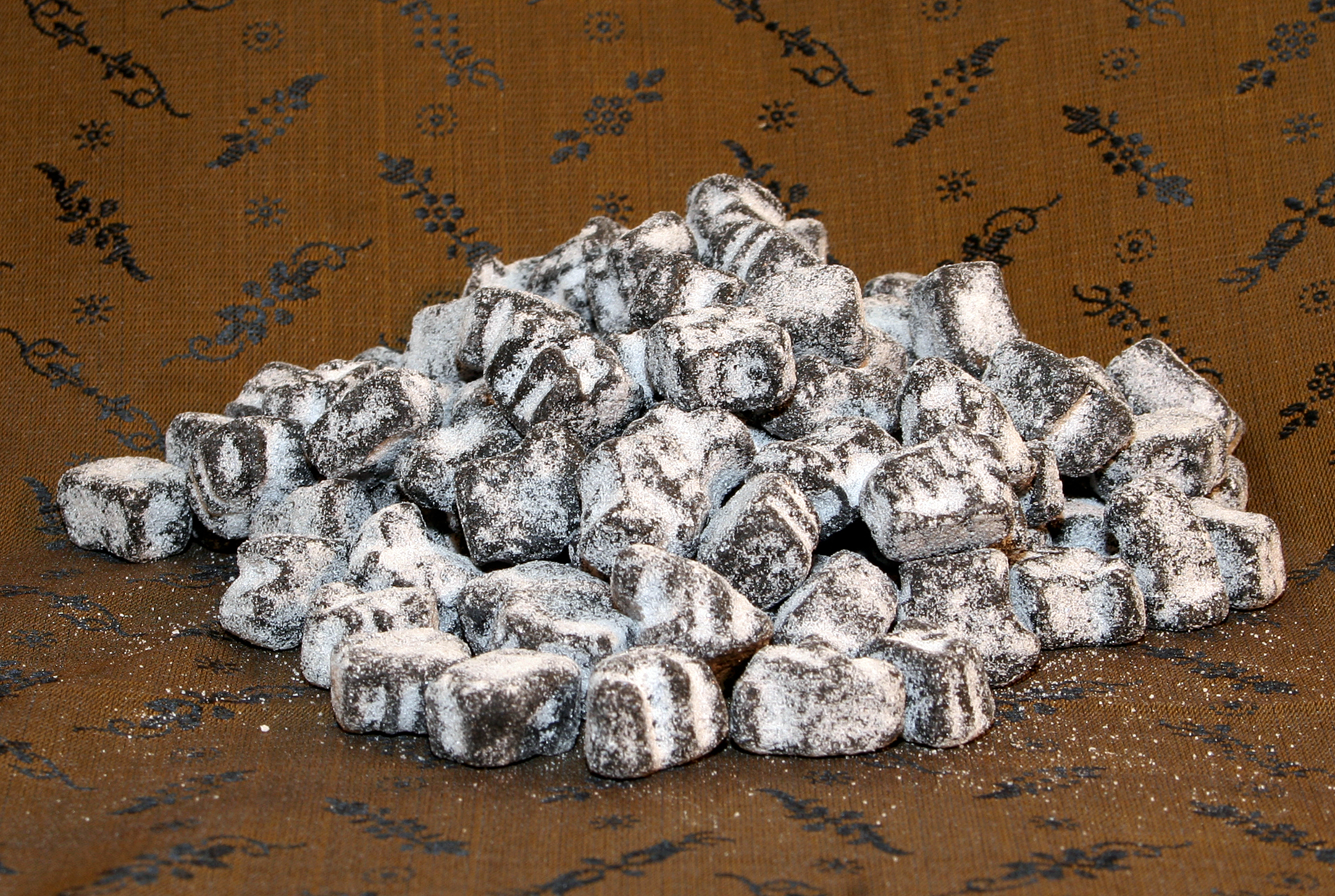 "Djungelvrål" liquorice candy from Malaco candy brand